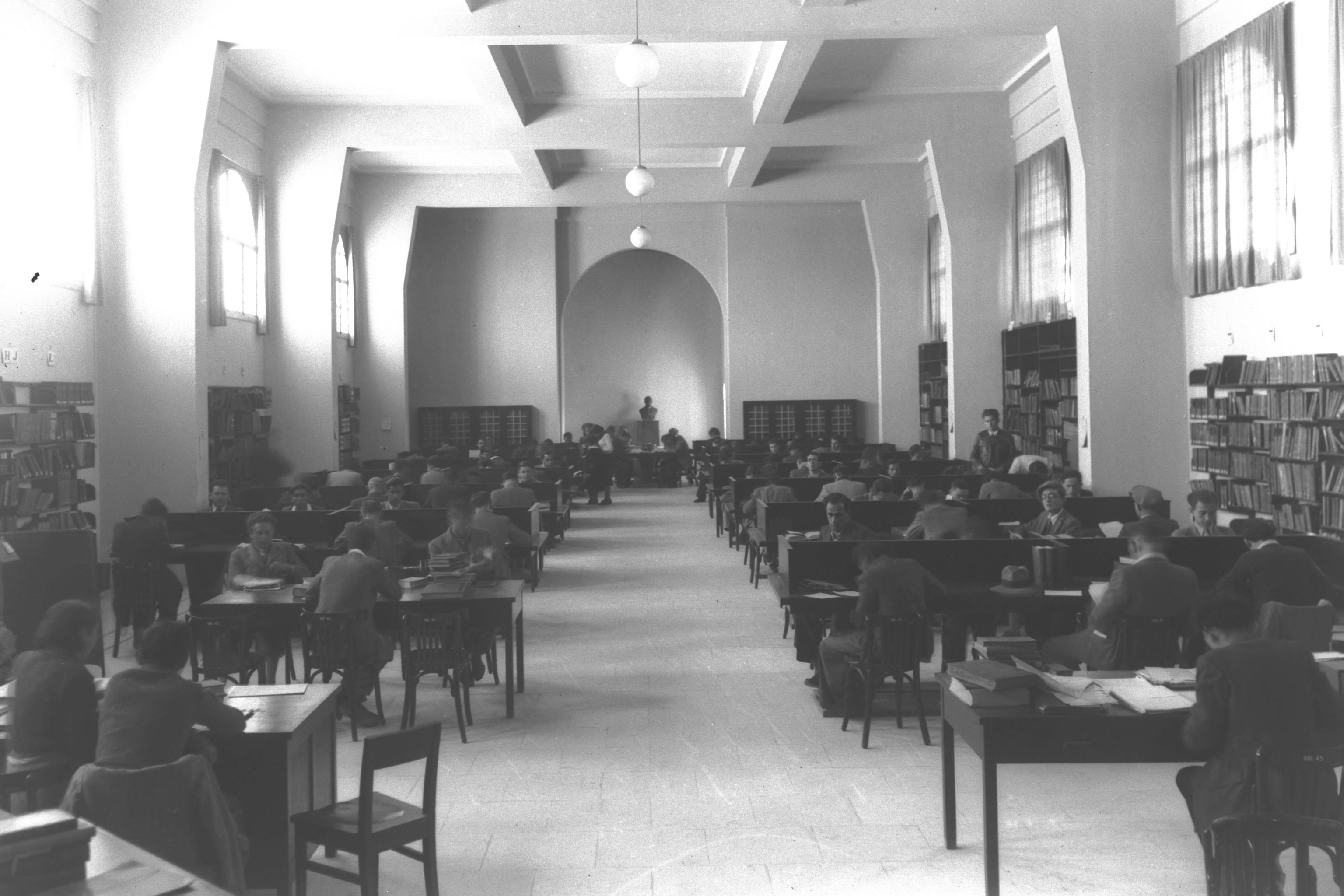 THE MAIN READING ROON IN THE NATIONAL LIBRARY OF THE HEBREW UNIVERSITY IN JERUSALEM. אולם הקריאה הראשי בספריה הלאומית באוניברסיטה העברית בירושלים.